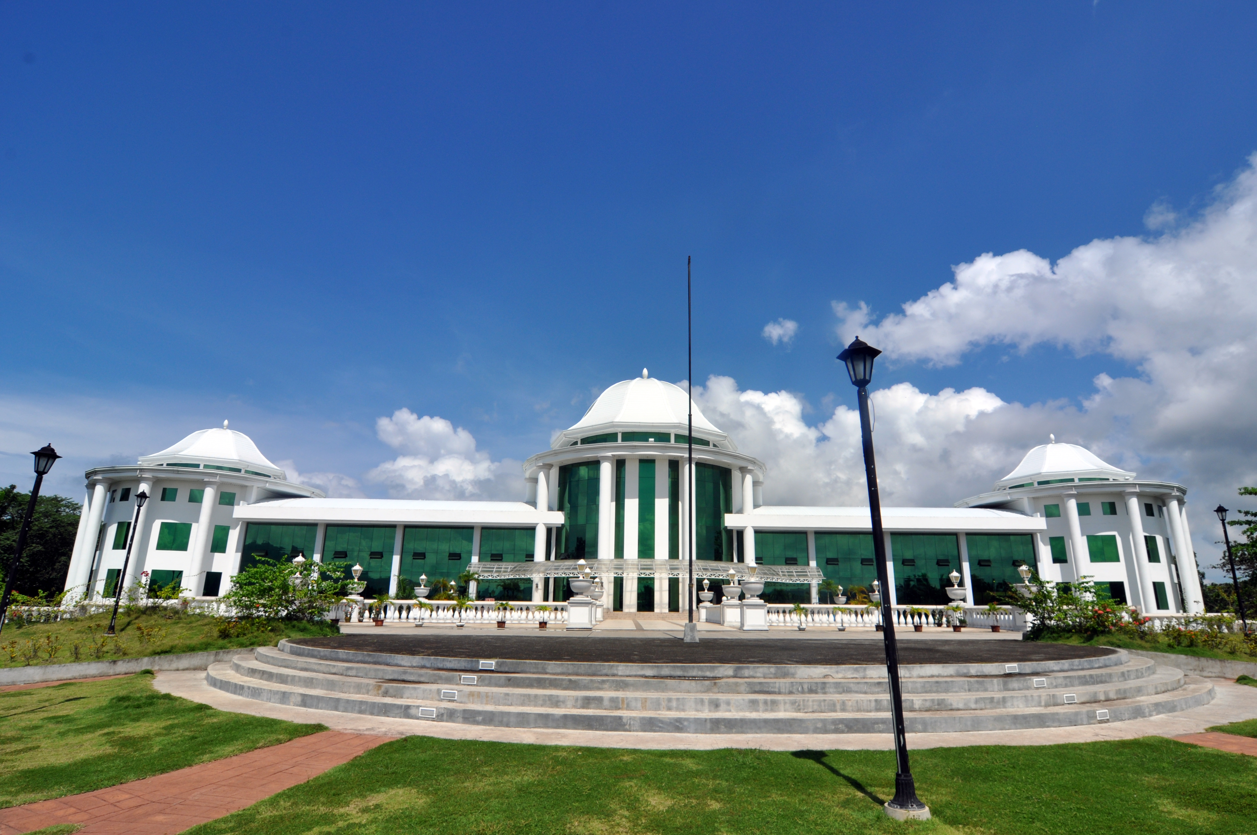 Modernized government center of Dapitan City